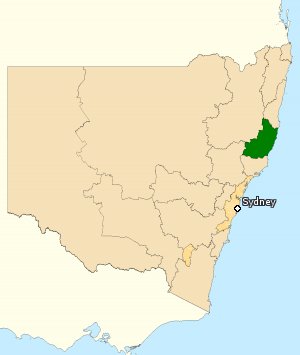 This image incorporates data that is: © Commonwealth of Australia (Australian Electoral Commission) 2009 Division of Lyne 2010